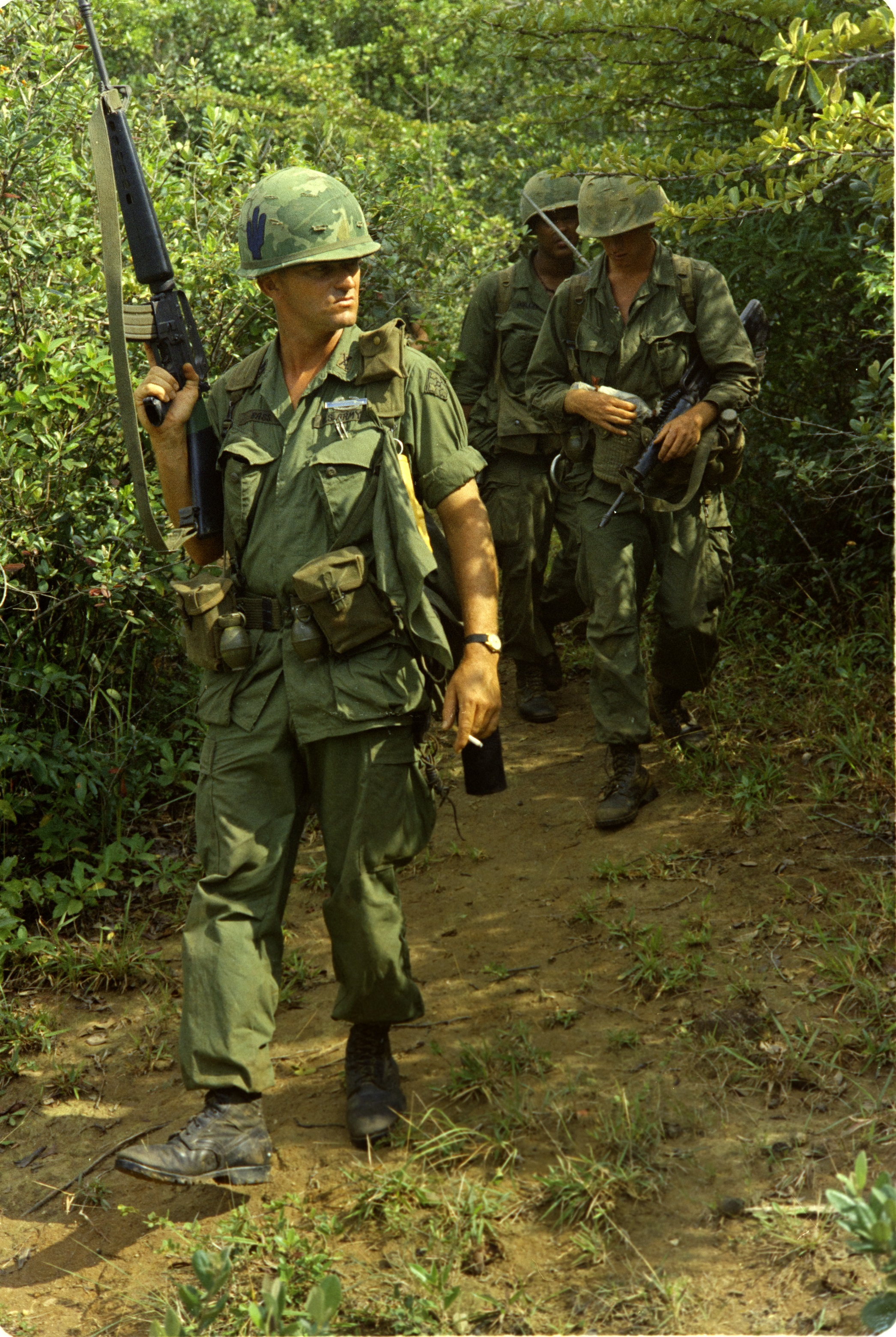 CPT Larry W. Bass, Commander of Company “D”, 2nd Battalion, 35th Infantry, 3rd Brigade, 4th Infantry Division is followed by two other Soldiers of the company. The three Soldiers are moving along a suspected enemy trail in search of Viet Cong/NVA Soldiers, their equipment and any other logistical supplies. This search and destroy mission was conducted in the Quang Ngai Province, 8 kilometers West of Duc Pho, Republic of Vietnam.